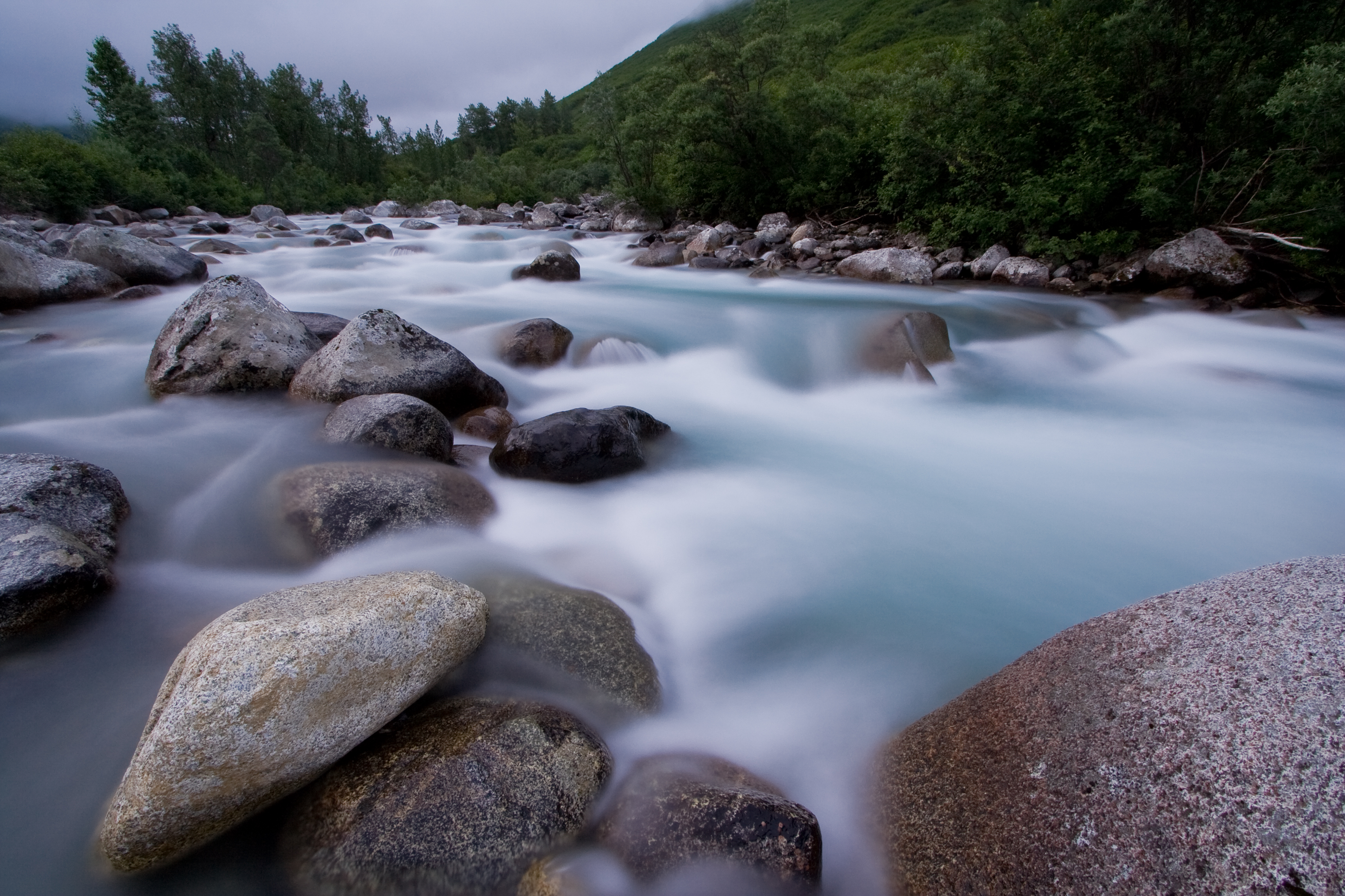 The Little Susitna River near the road to Hatcher Pass, Alaska. Captured at midnight. Please see on black.